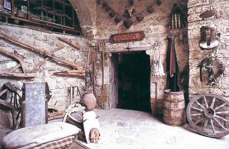 Megala Meteora